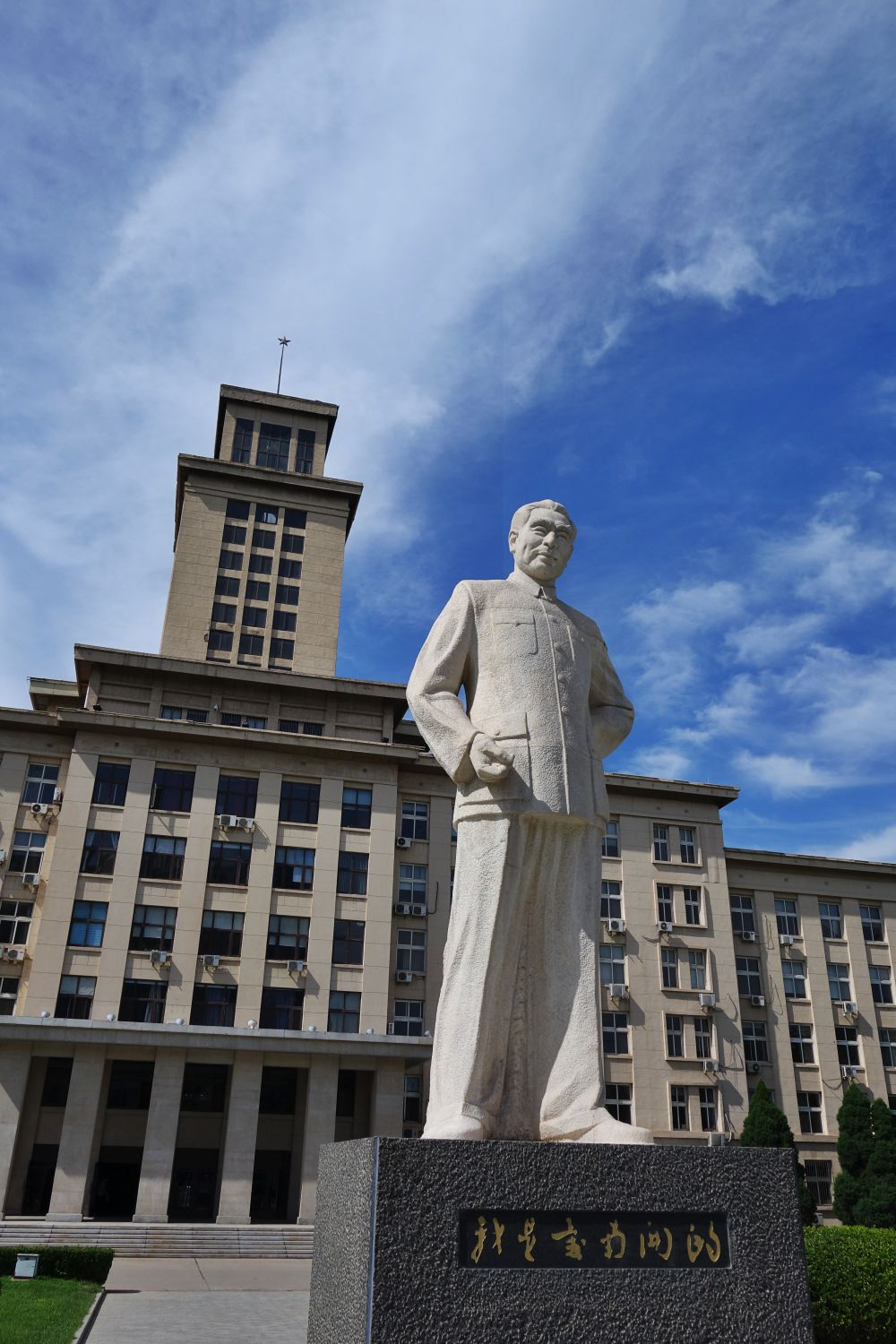 Statue of Premier Zhou Enlai in Nankai University